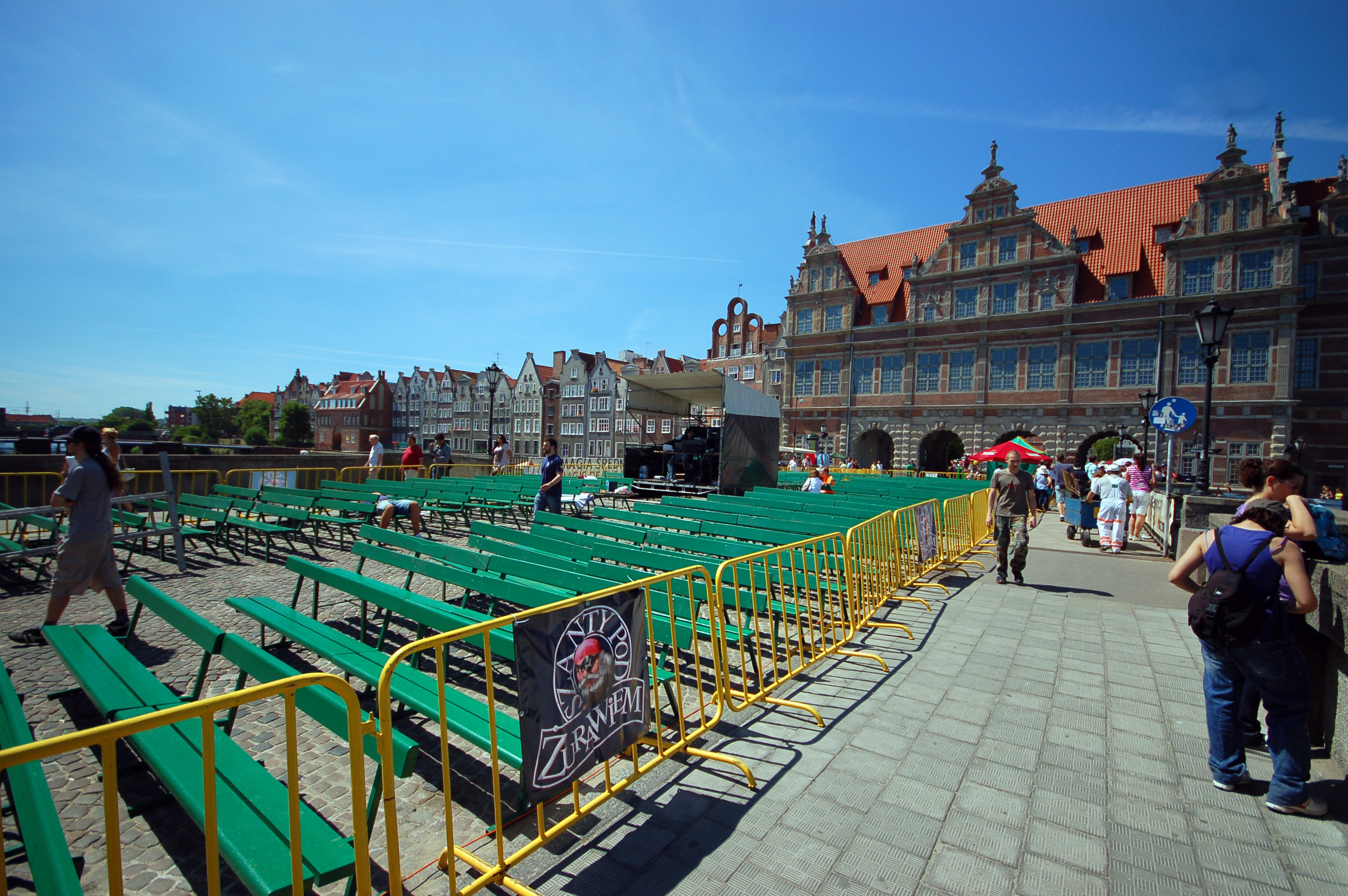 Picture taken in Gdańsk after Wikimania 2010 conference.